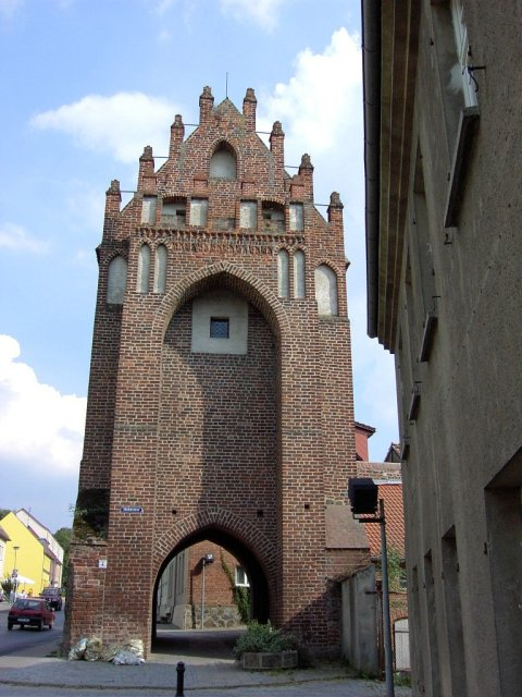 City gate "Mill gate" (Mühlentor) in the city wall of Templin, Brandenburg, Germany.